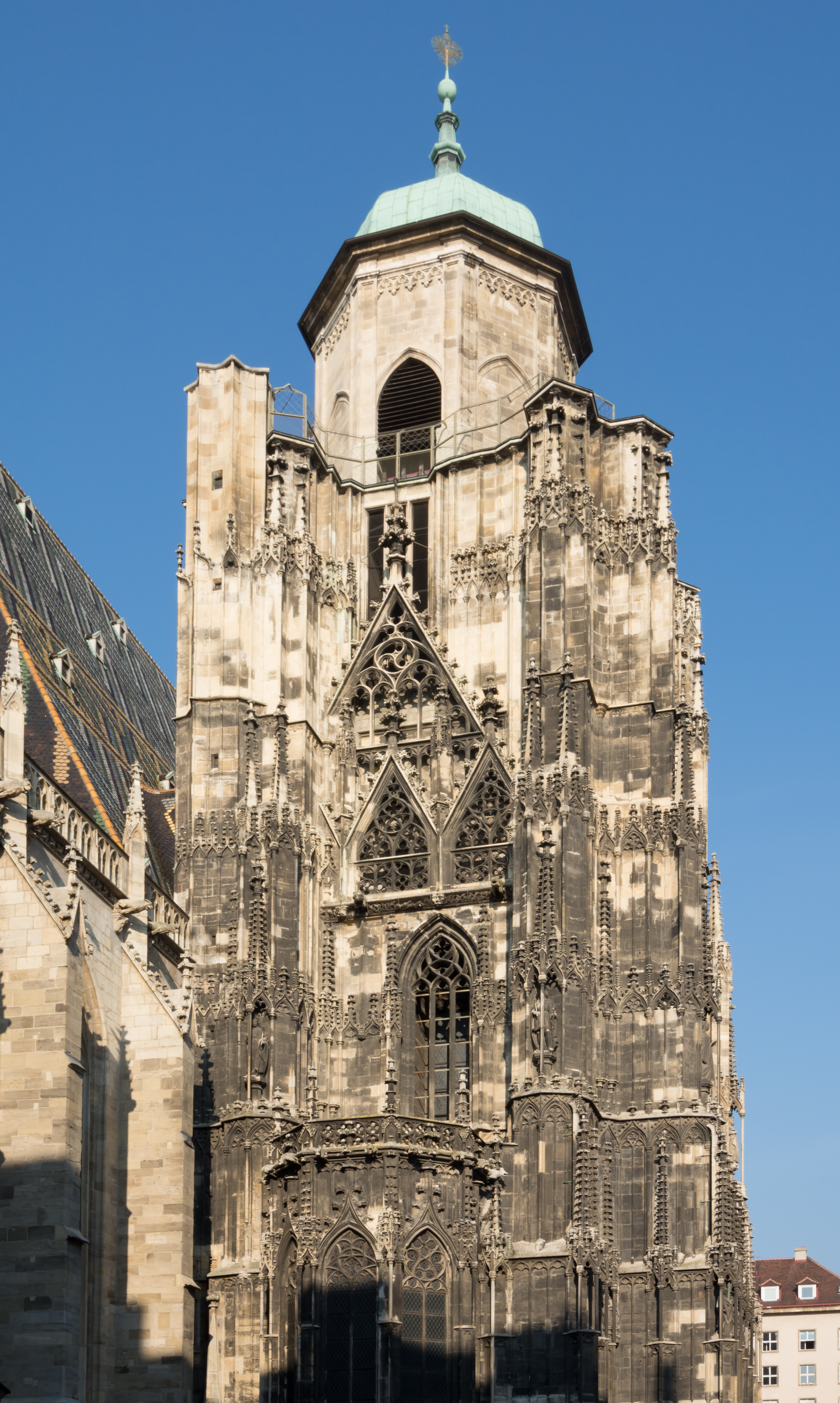 North tower of St. Stephen's Cathedral, Vienna, Austria